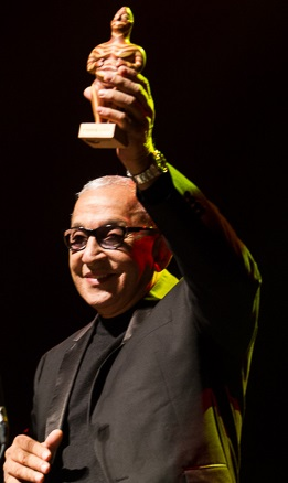 Juan Formell at the WOMEX Award Ceremony in 2013